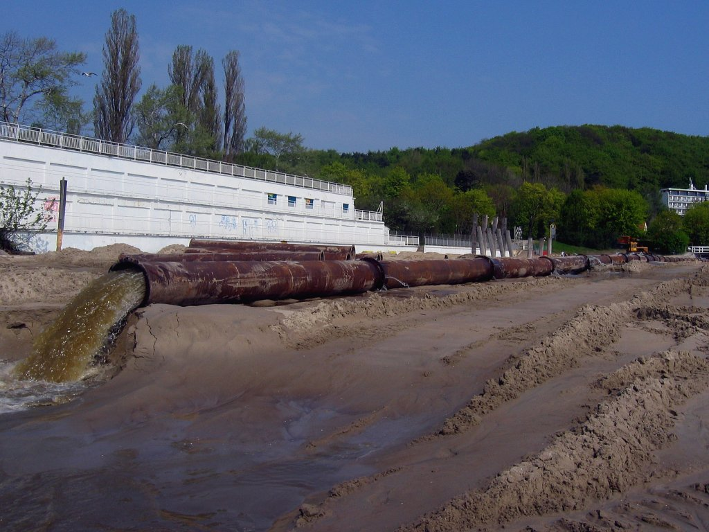 Expanding beach in Gdynia Orłowo